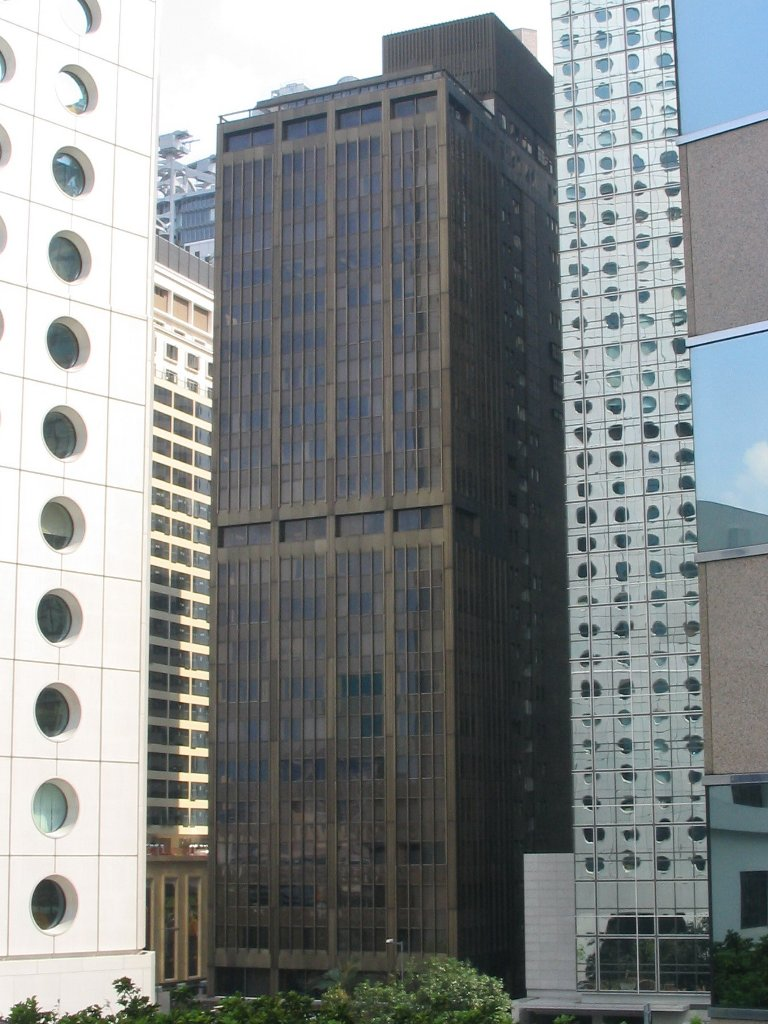 從交易廣場眺望聖佐治大廈 St George's Building viewed from Exchange Square